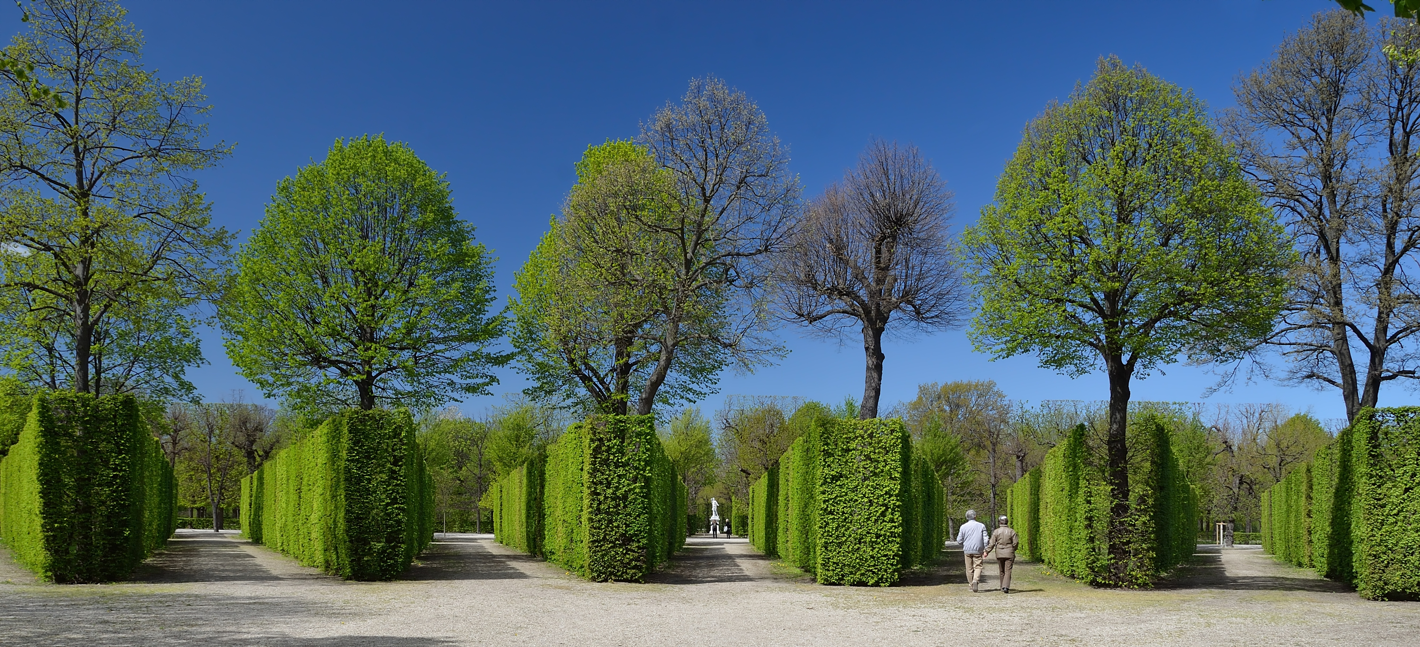 A Bosquet ("copse") in the gardens of Schönbrunn Palace in Vienna, consisting of hedges and trees. It is shaped like a fan and therefore it is called "der Fächer" in German language. The gardens were designed mainly during the reign of Maria Theresia (1740 - 1780) and have been preserved together with the buildings as a remarkable Baroque ensemble, which was catalogued on the World Heritage List of the UNESCO in 1996. A characteristical feature of the gardens are numerous sculptures. The statue of Apollo by Johann Baptist Hagenauer can be seen in the background of the central alley. It is numbered as no. 42 in the map of Schönbrunn: [2]